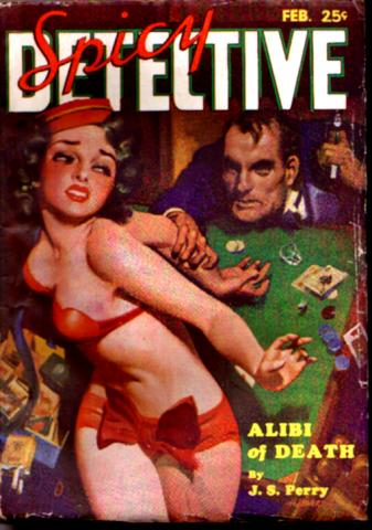 Cover of the pulp magazine Spicy Detective Stories (February 1935, vol. 2, no. 4) featuring "Alibi of Death" by J. S. Perry.